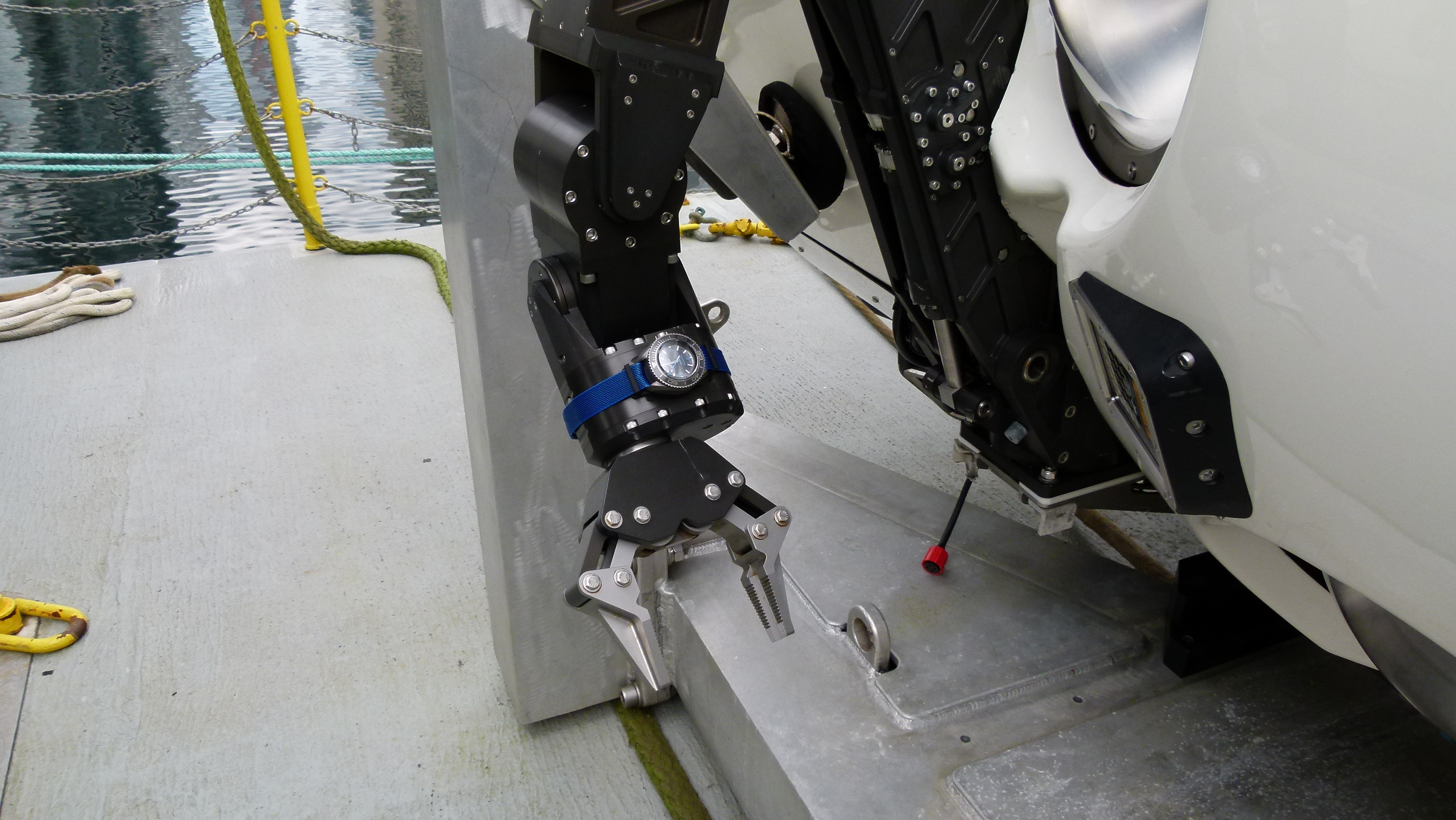 This picture shows the manipulator of the deep diving submersible Limiting Factor with a Omega watch strapped on it.